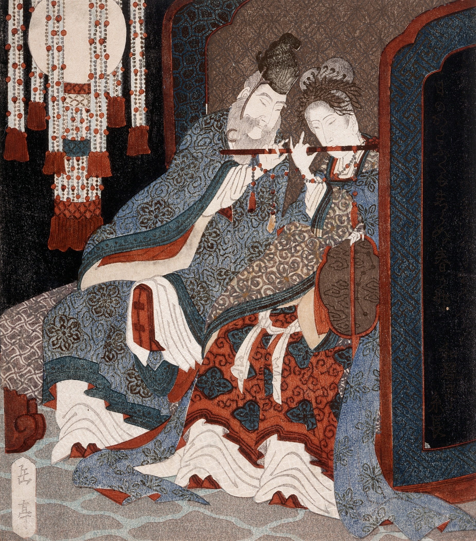 Japan, 19th century Prints; woodcuts Color woodblock print; surimono, mica, copper, gold, and brass Image: 8 1/16 x 7 1/8 in. (20.5 x 18.1 cm) Paper: 8 1/16 x 7 1/8 in. (20.5 x 18.1 cm) Gift of Caroline and Jarred Morse (M.80.219.61) Japanese Art